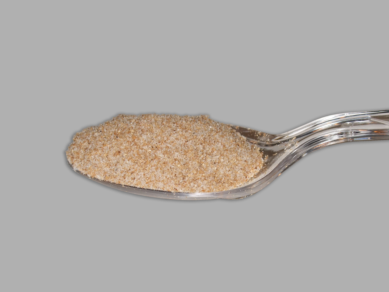 Enzymatic Drain Cleaner